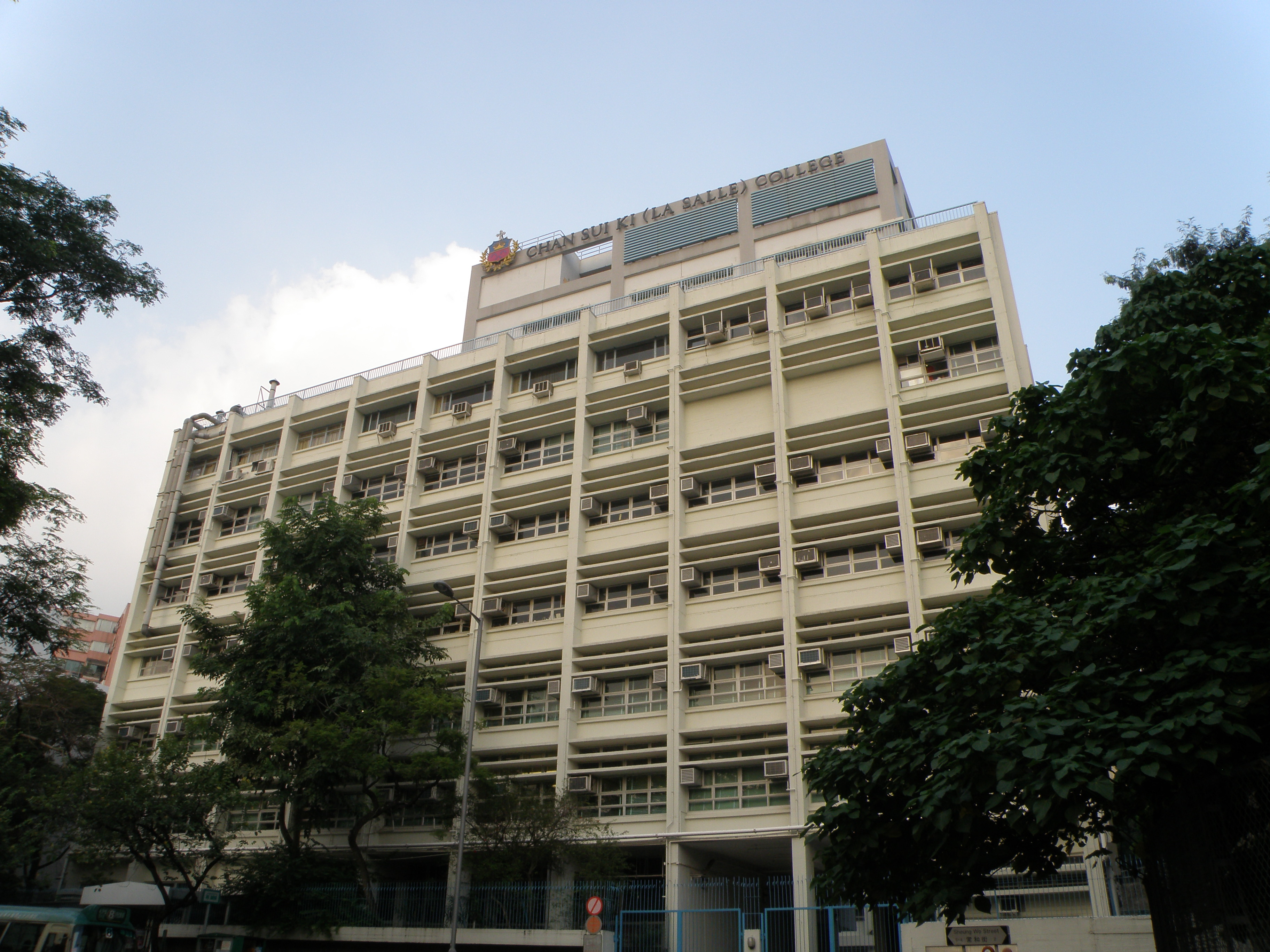 Chan Sui Ki (La Salle) College in Ho Man Tin, Hong Kong.